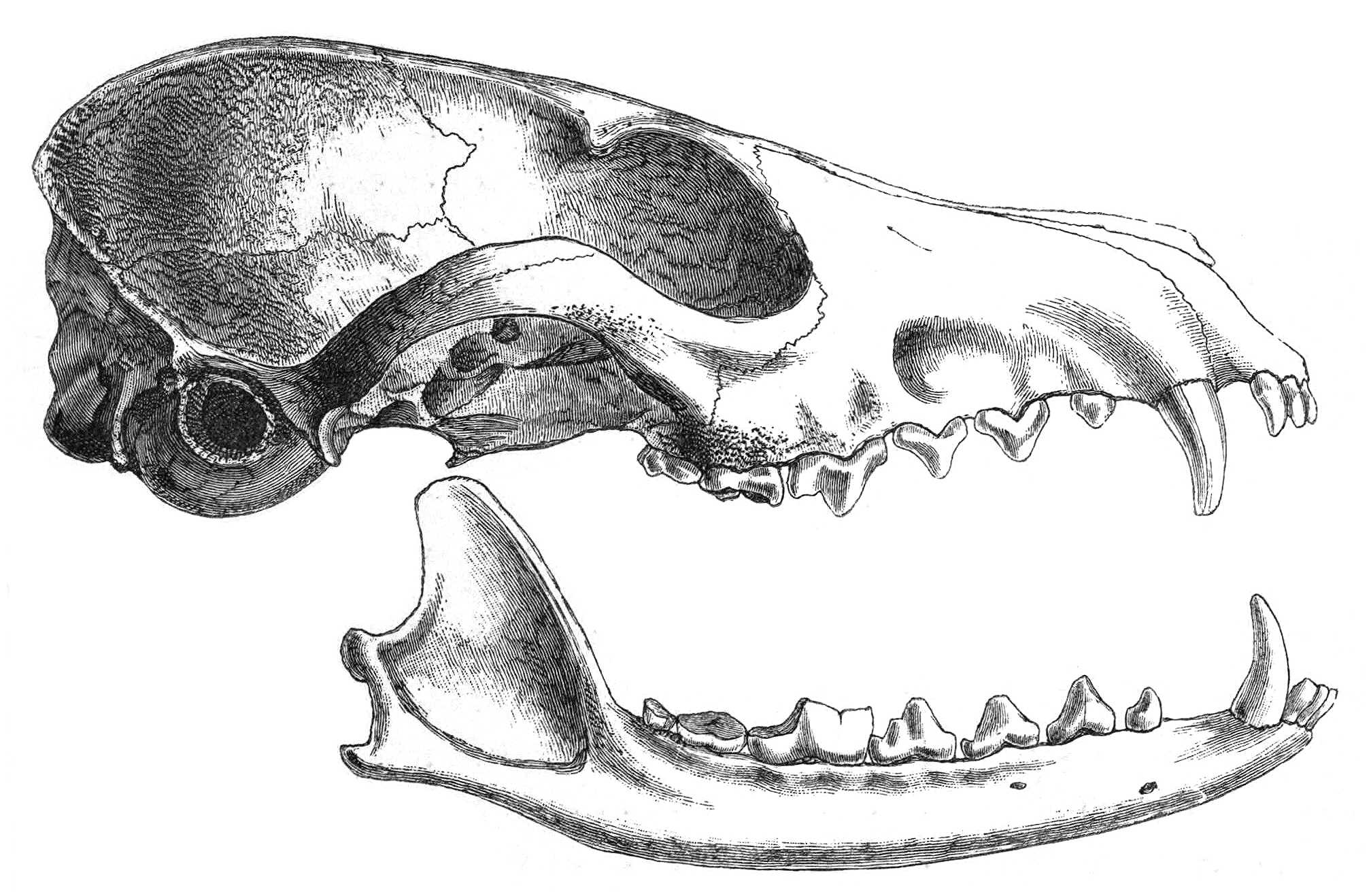 Illustration (wood cut) of a skull and jaw of the white-footed fox (Vulpes vulpes pusilla)